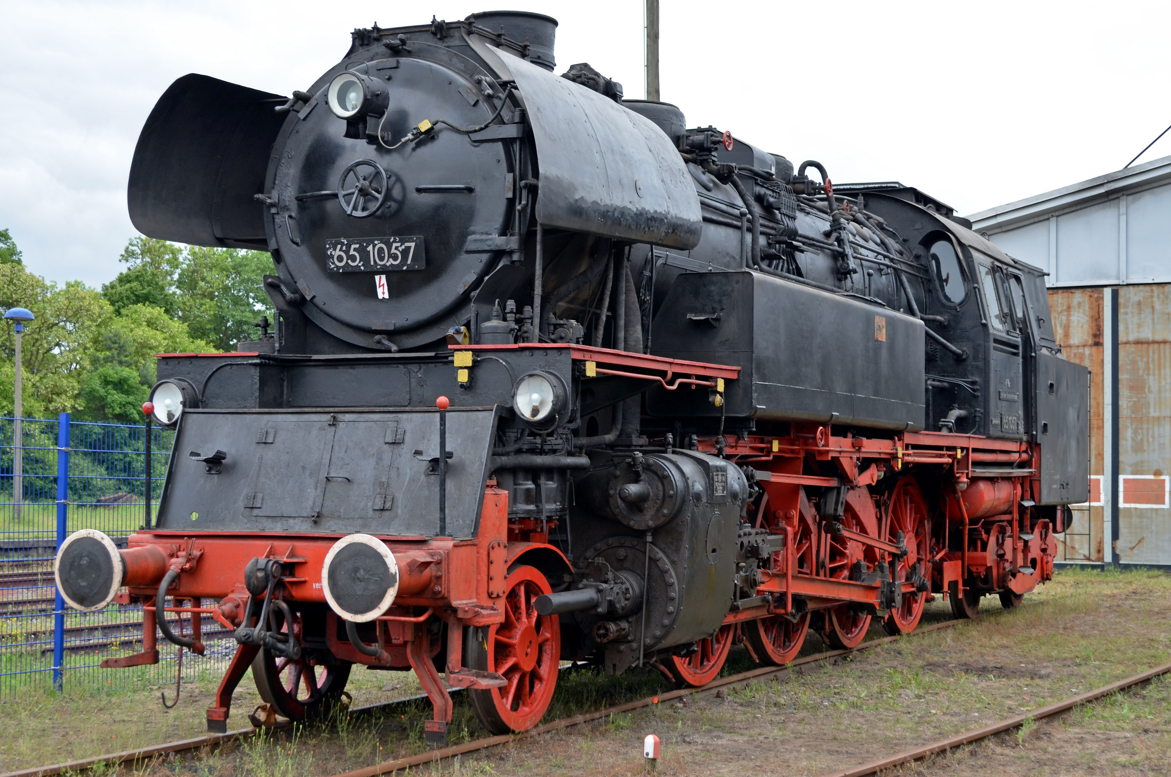 Engine 65 1057 at Basdorf.